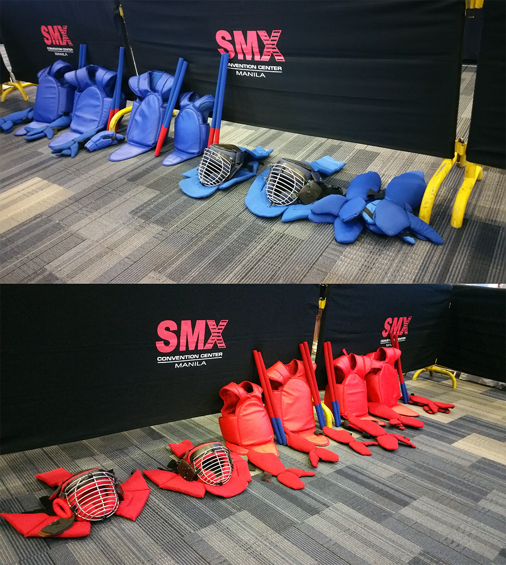 Safety equipment used in Arnis Tournaments with padded vests, sticks, headgear and groin guards